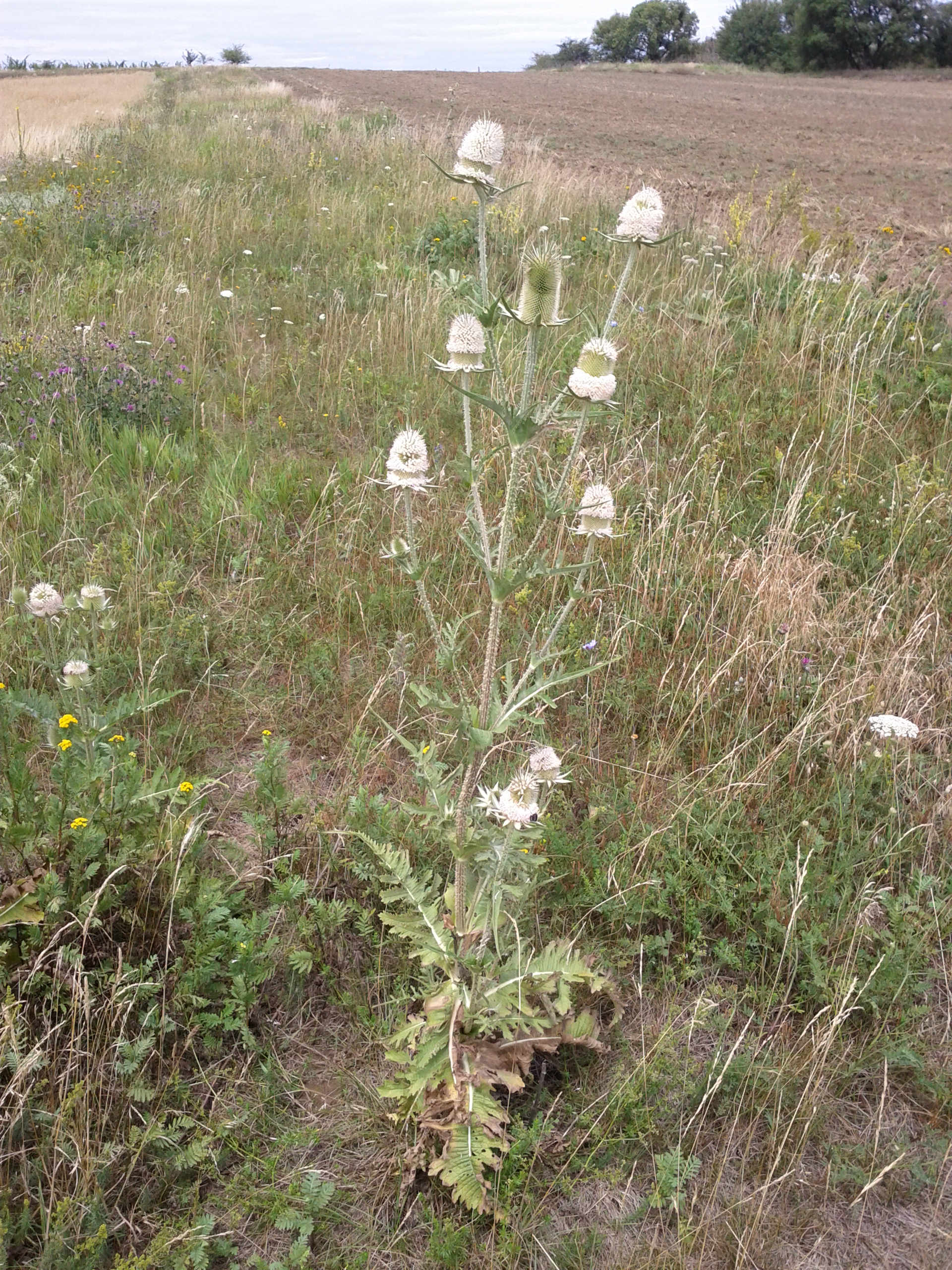 Habitus Taxonym: Dipsacus laciniatus ss Fischer et al. EfÖLS 2008 ISBN 978-3-85474-187-9 Location: near Alte Schanzen, Floridsdorf, Vienna - ca. 225 m a.s.l. Habitat: fallow land